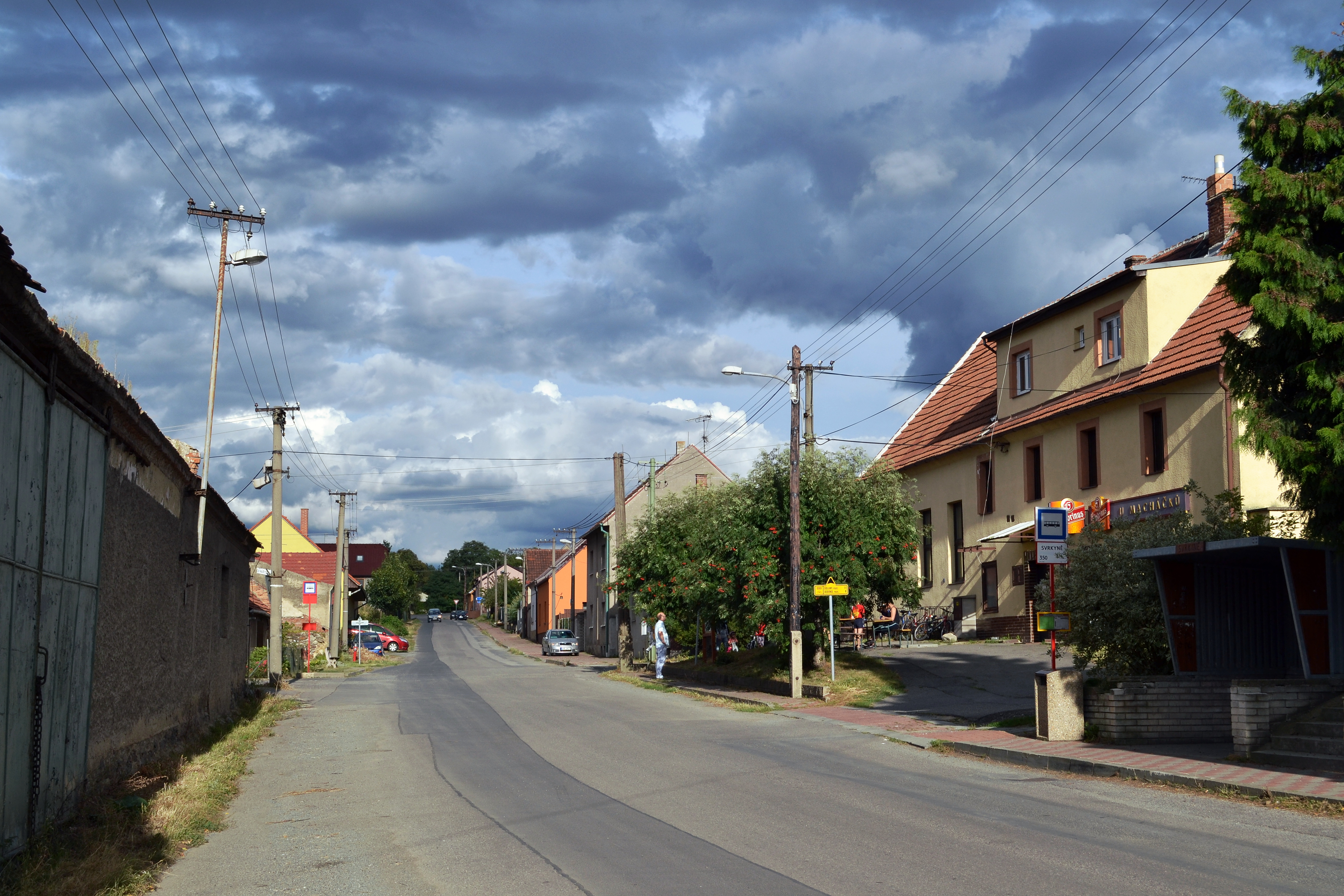 Main street in the village Svrkyně, Central Bohemian Region, Czech Republic.